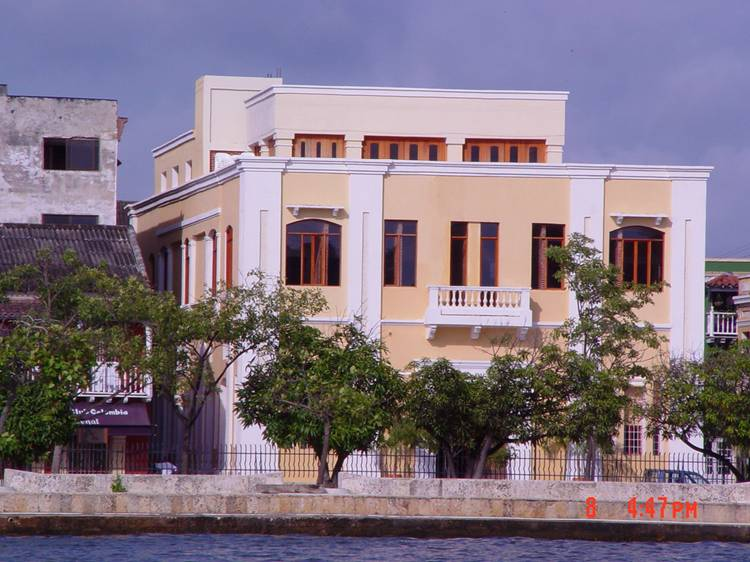 This is a picture of the building of the council of cartagena